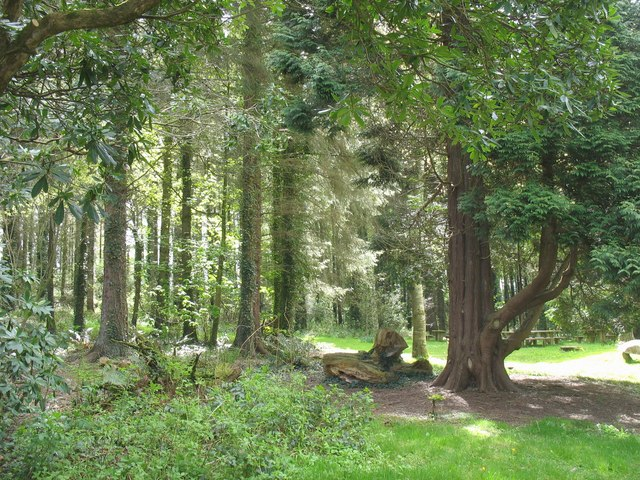 Ornamental woodland at Glynllifon